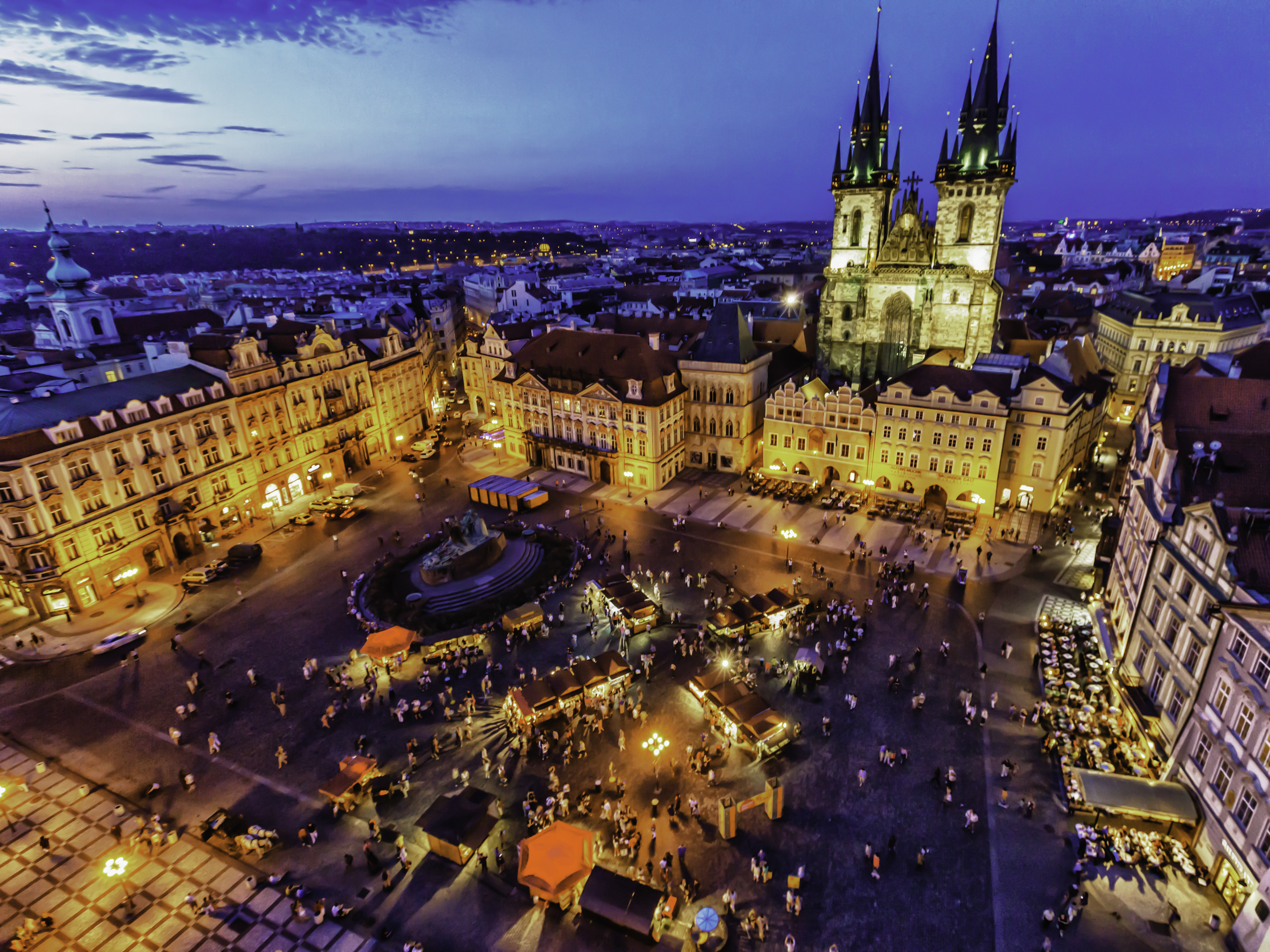 Prague cityscape at dusk